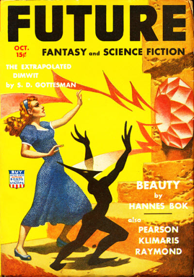 October 1942 cover of the Future Fantasy and Science Fiction magazine, volume 3, issue 1.